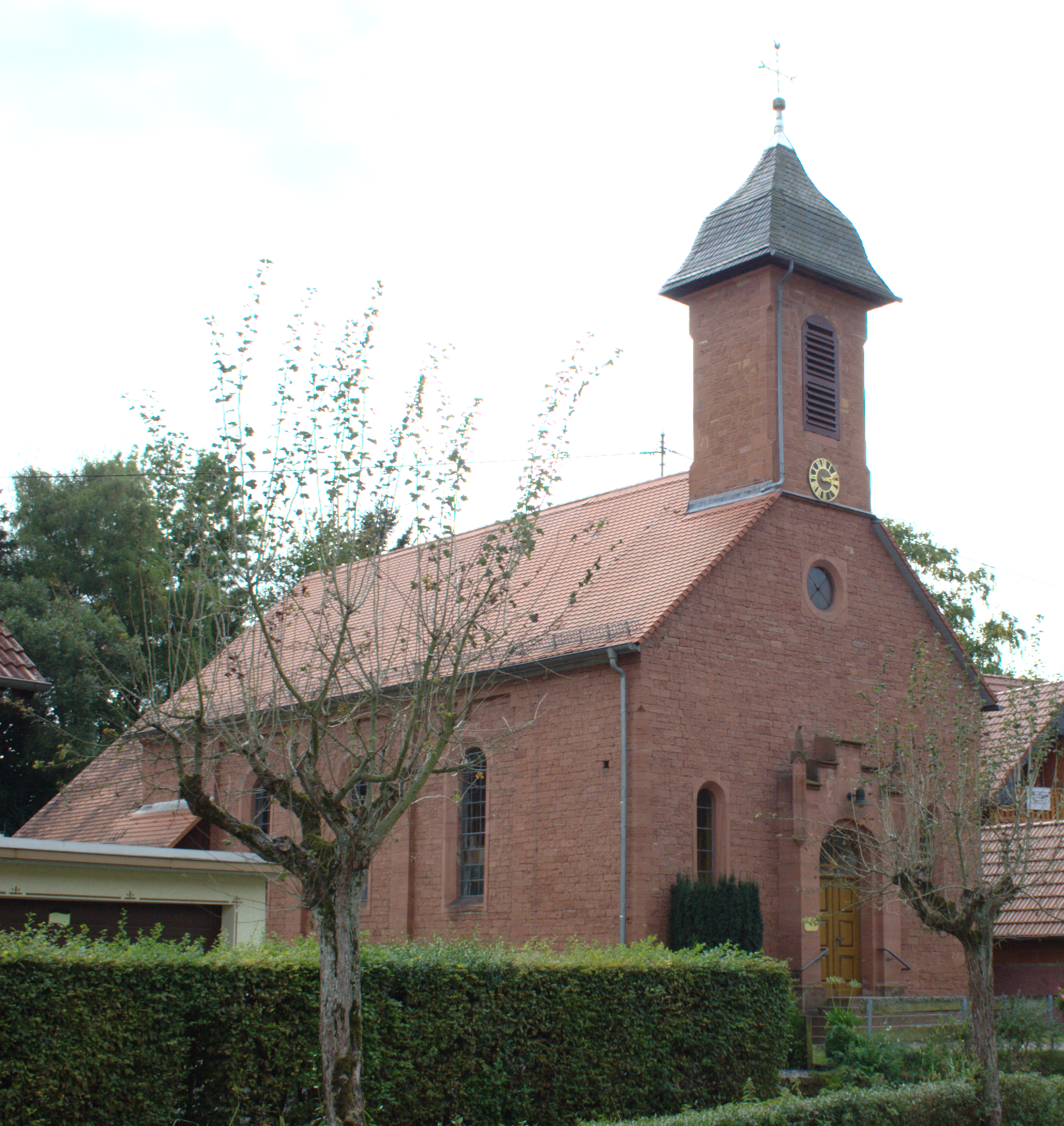 Church (side) in Gruendau Breitenborn / Hesse / GermanyThis is a photograph of an architectural monument.